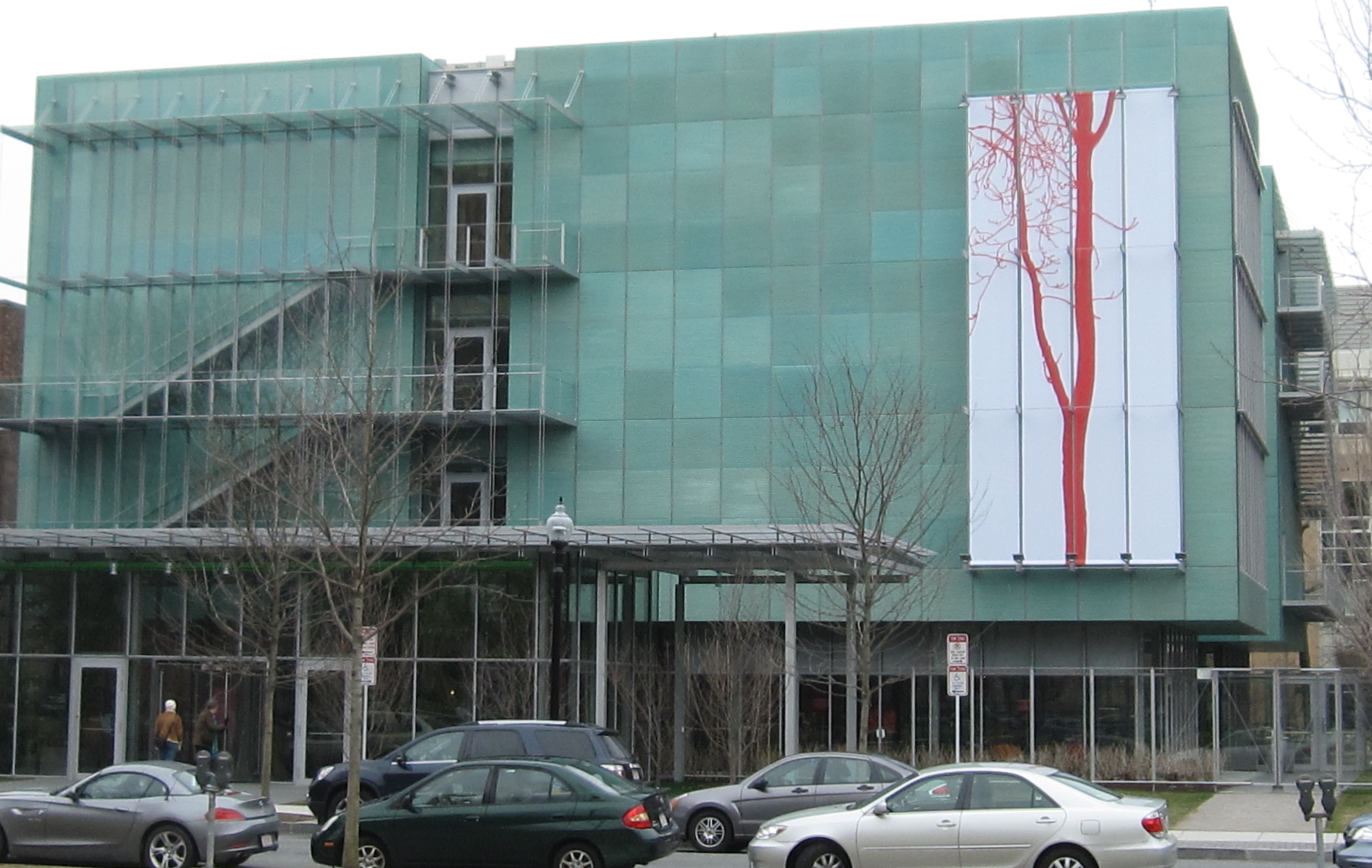 Gardner Museum, Boston, Massachusetts, USA